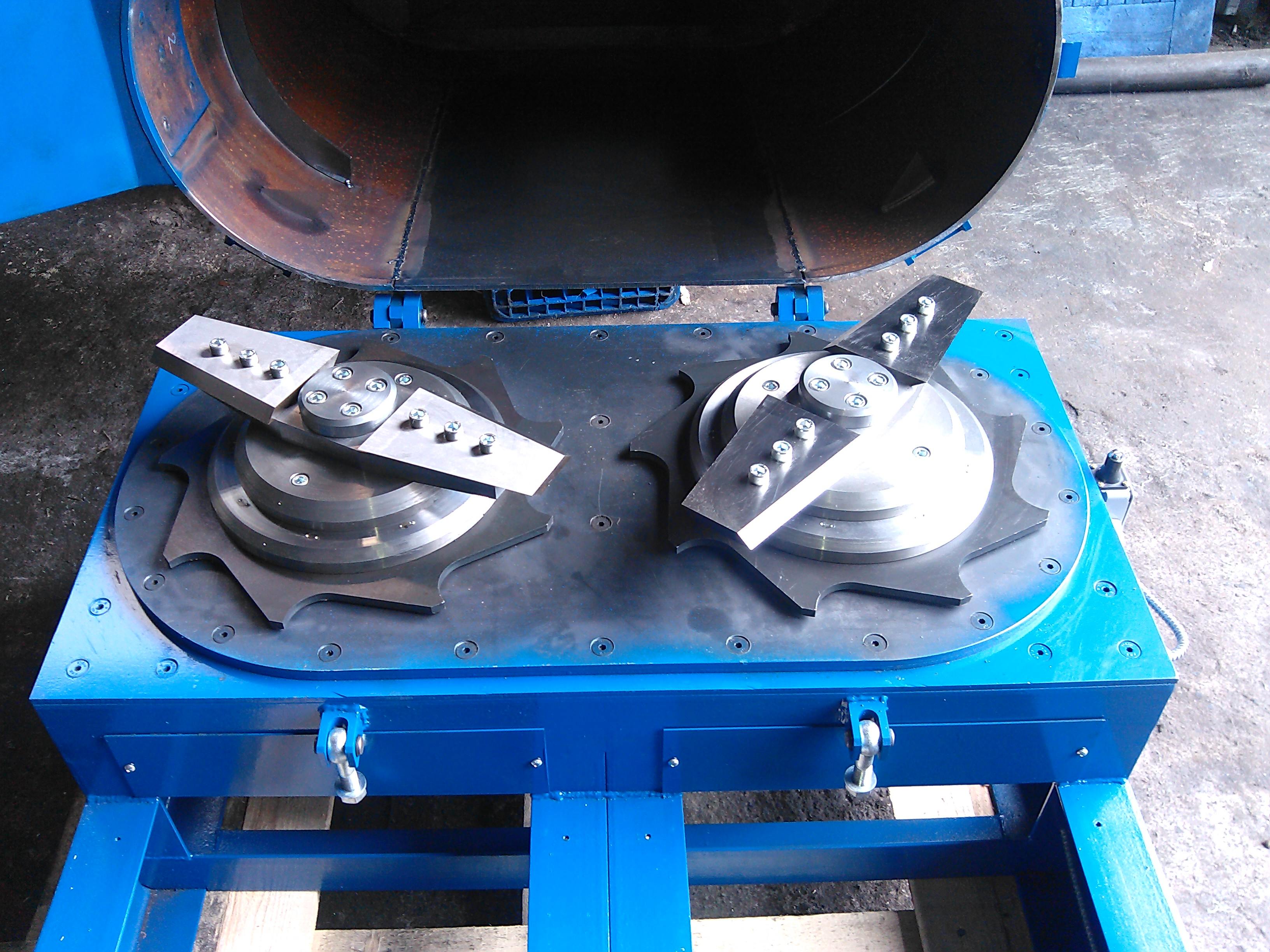 Twin-rotor shredder for plastic waste